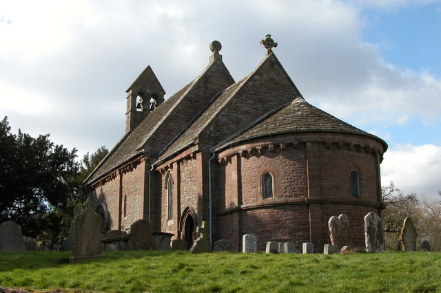 St Mary's & St David's parish church, Kilpeck, Herefordshire: view from the southeast, showing the apsidal chancel